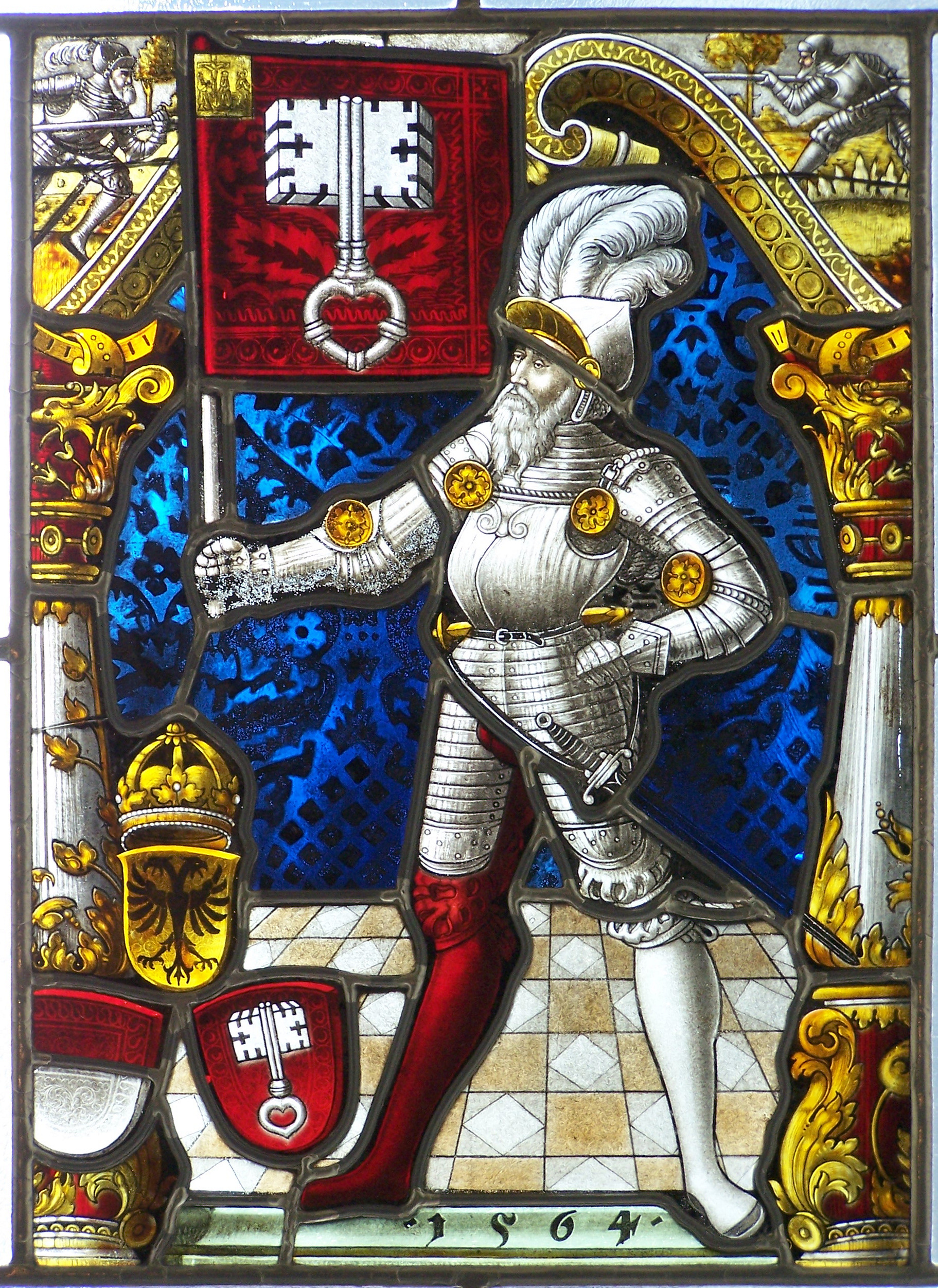 Stained glass Standesscheibe of Unterwalden (1564)(more accurately, of Nidwalden, presumably the right half of a Standesscheibe showing both Obwalden and Nidwalden. Nidwalden had used the double-key as the design of its war flag from the early 15th century. The red-and-white design formerly representing Unterwalden as a whole was now used by Obwalden). Kept in Sułkowski castle in Bielsko-Biała (Poland).